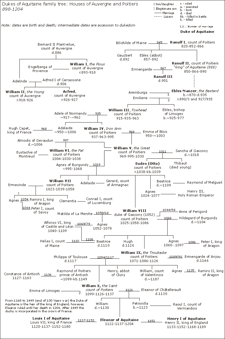 family tree for the dukes of Aquitaine